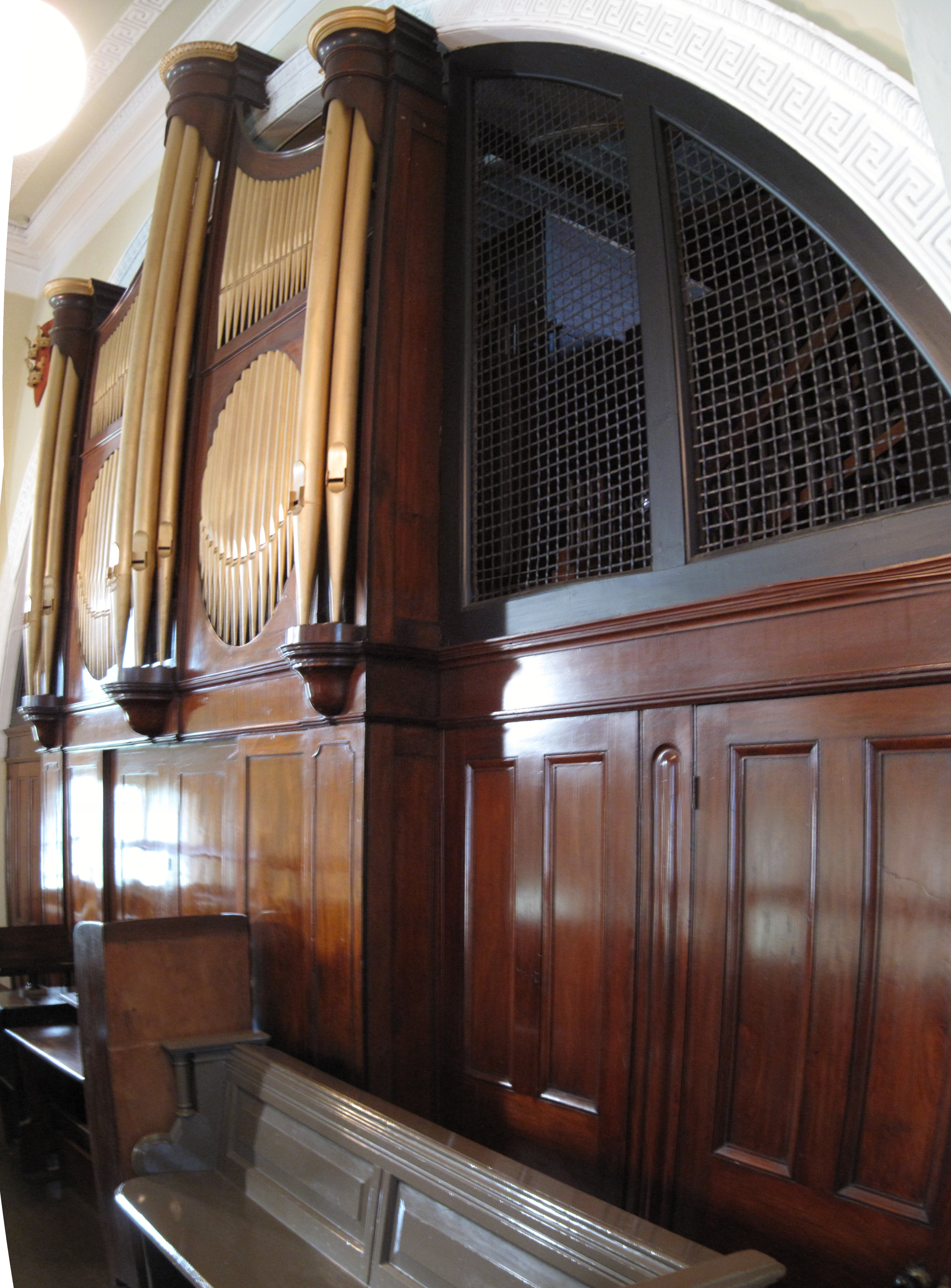 View of organ case, including panelling from HMS Calliope 1884, at Christ Church, Preston Road, North Shields, Tyne & Wear, UK